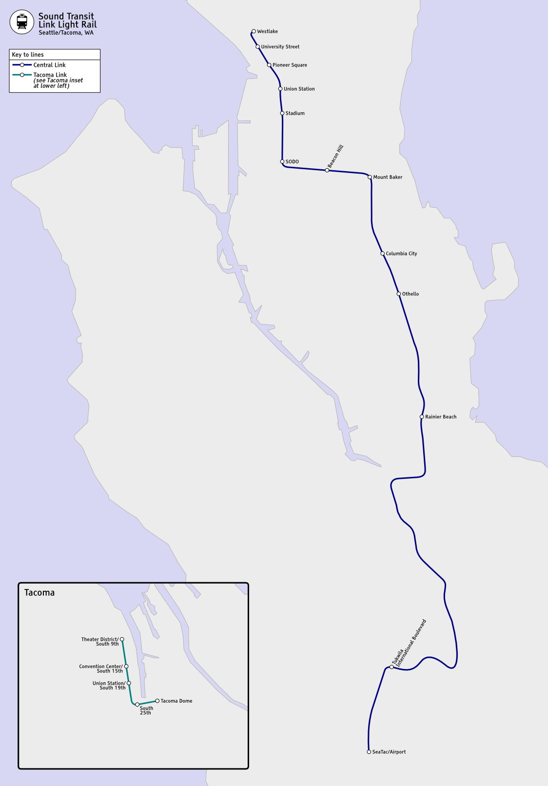 Sound Transit Link Light Rail system map, depicting the system as it will be by the end of 2009.